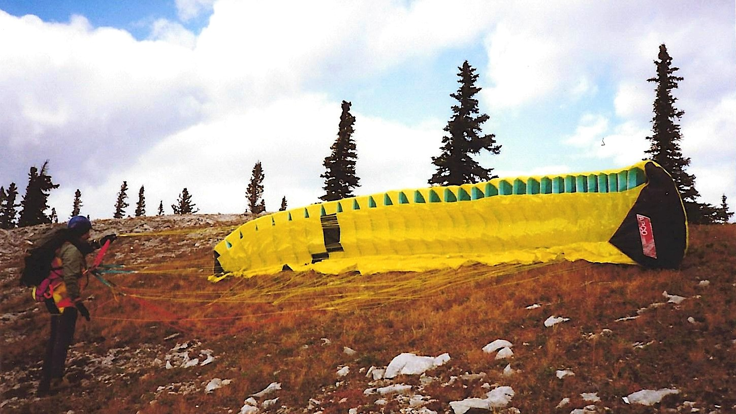 An Apco Starlite 26 paraglider being readied for a mountain launch, by inflating cells by pulling up the top risers. The launch location is Prairie Mountain, in the W:Canadian Rockies west of W:Brag Creek, W:Alberta